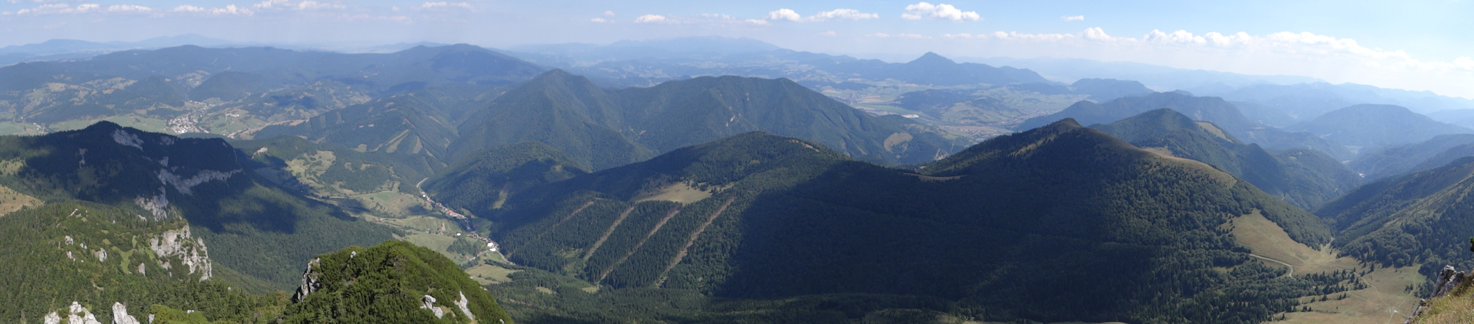 Veľký Rozsutec panorama